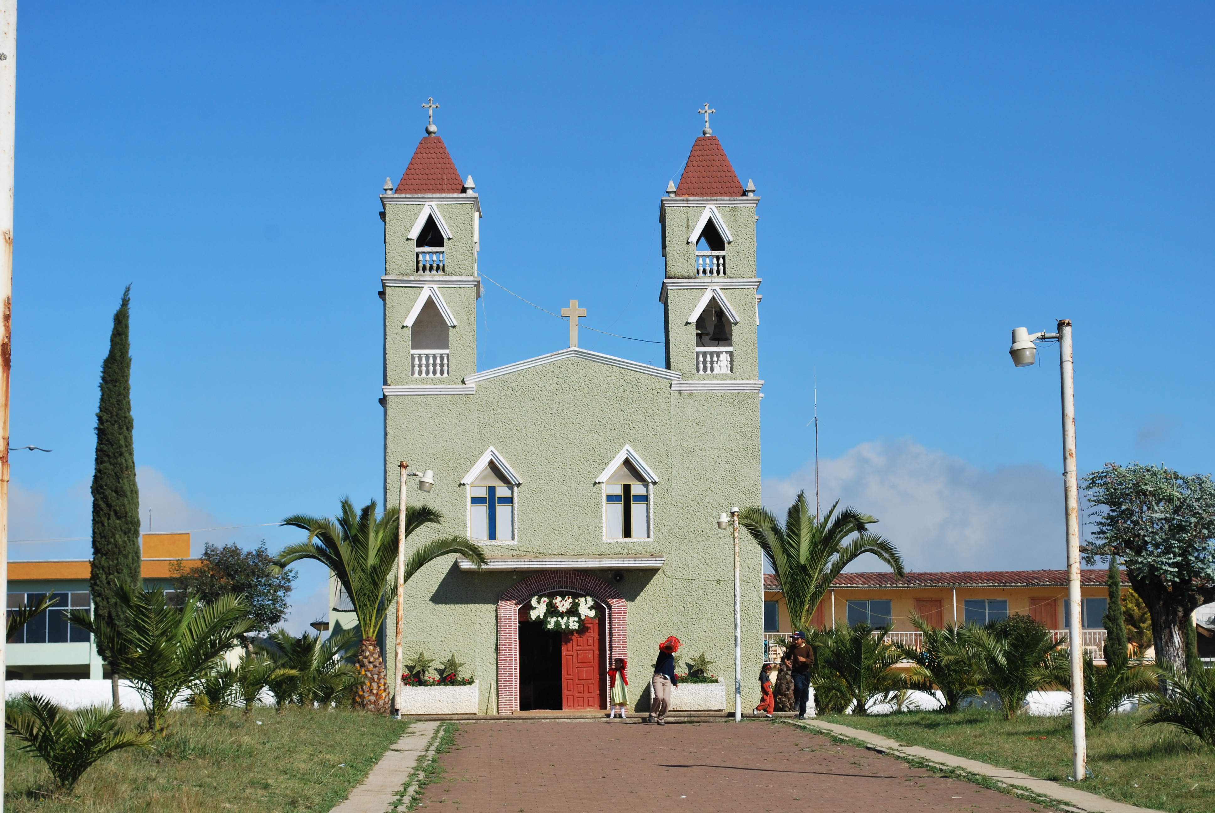 Church in San Mateo, Acaxochitlan, Hidalgo